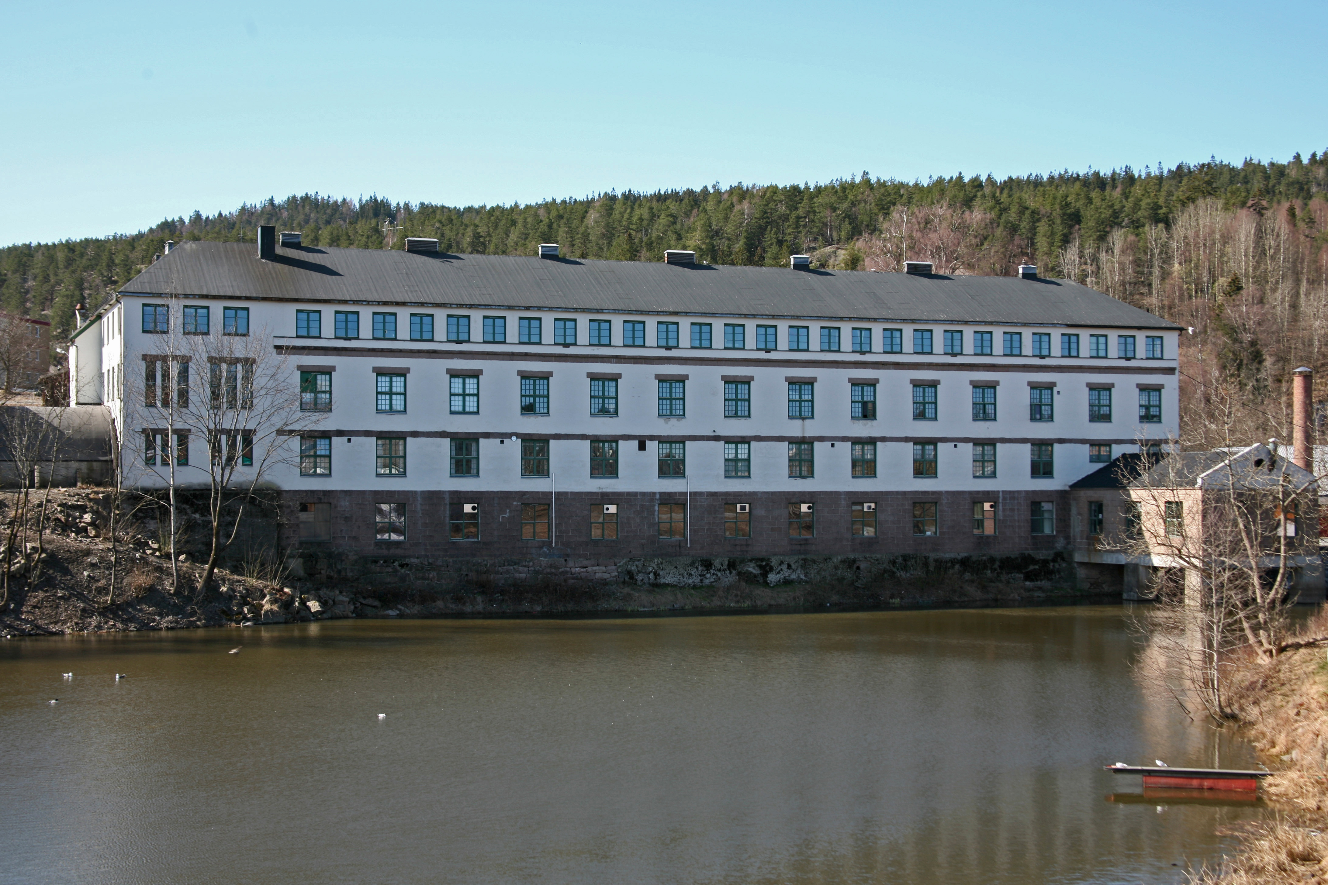 Old Factory Building (Heggedal - Norway)